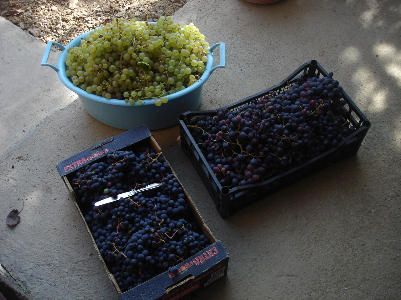 Grape harvesting (WikiWine project) in Macedonia